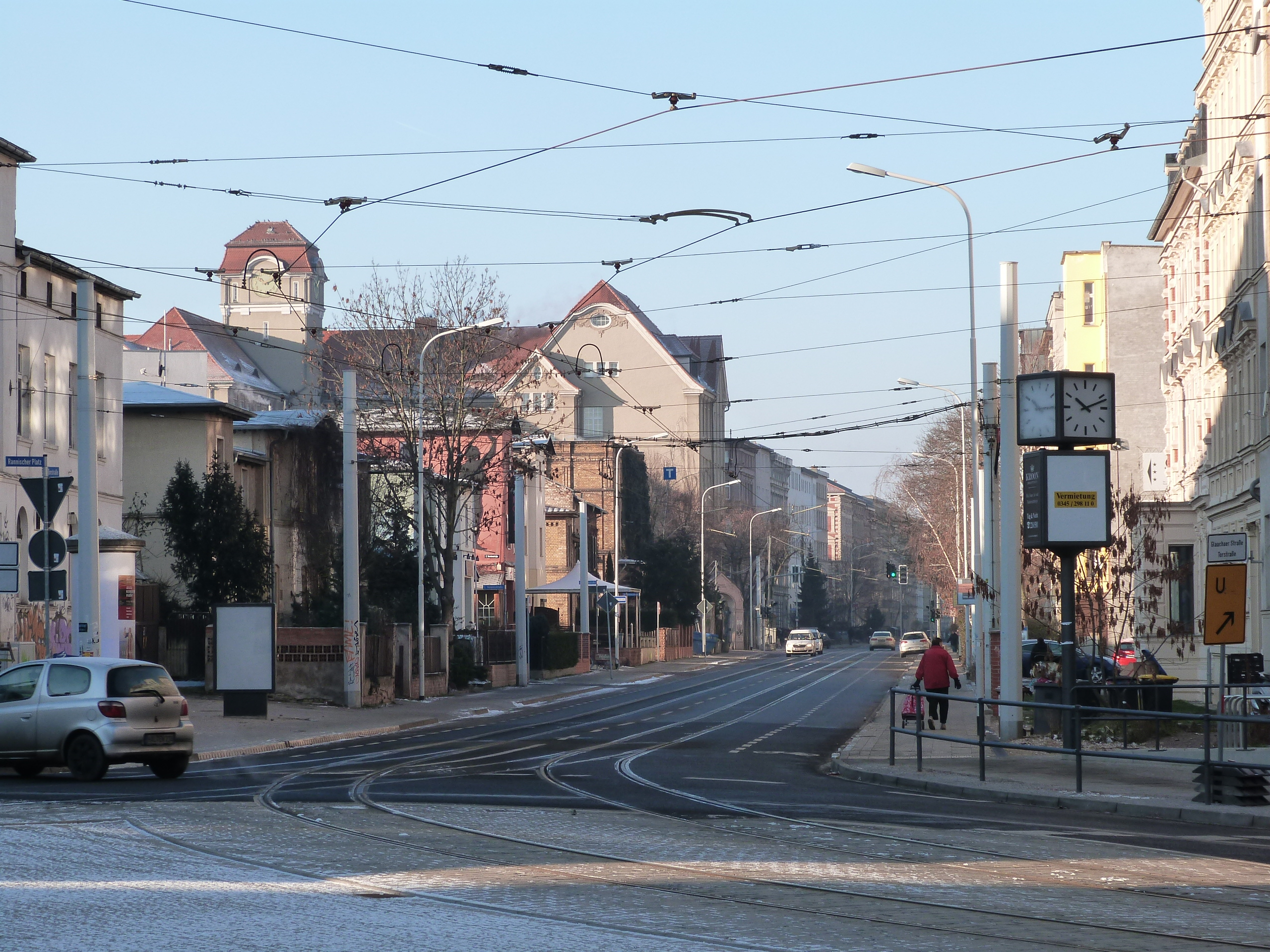 View in the Torstrasse from the square Rannischer Platz, Halle (Saale)